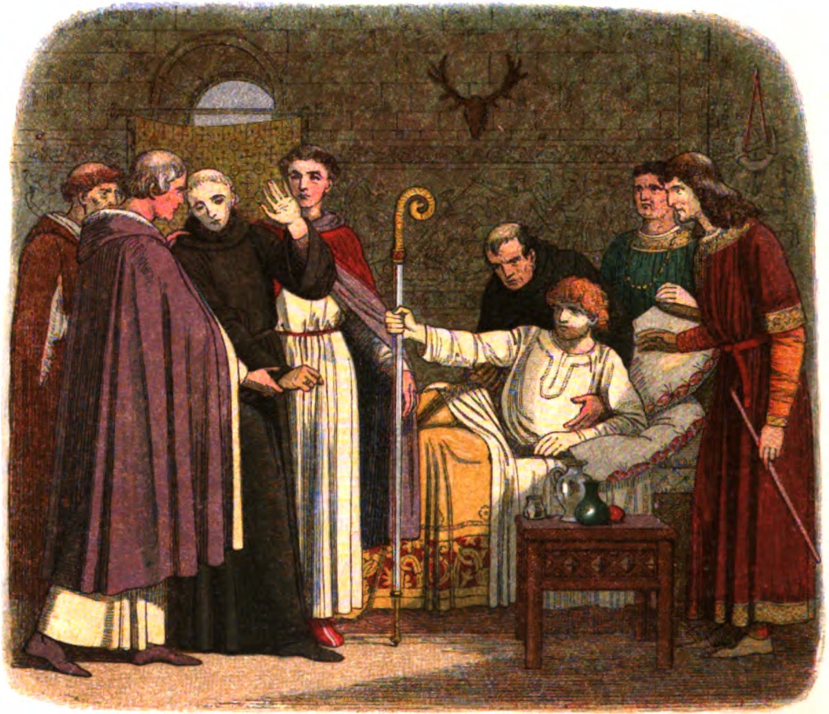 Anselm was practically dragged out of his bed to become the Archbishop of Canterbury.